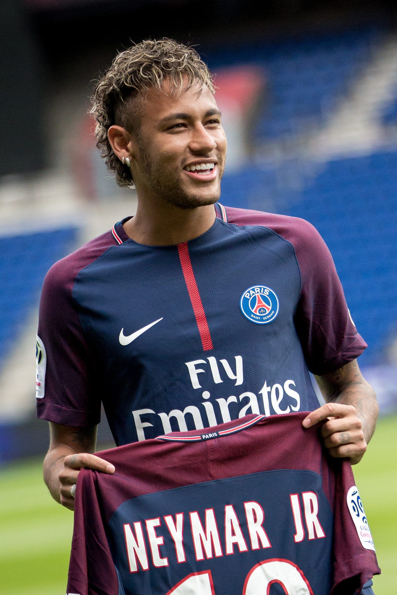 Neymar Jr official presentation for Paris Saint-Germain, 4 August 2017.